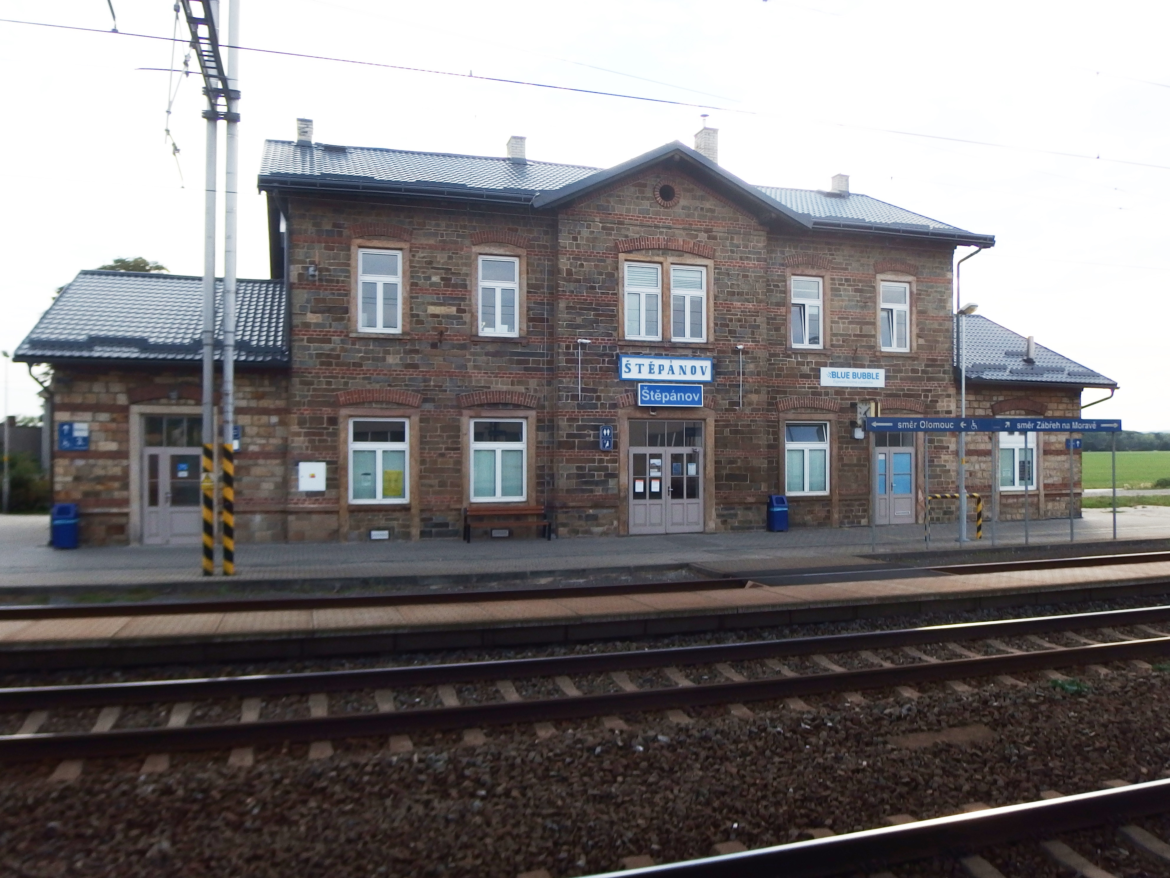 Štěpánov, Olomouc District, Czech Republic. Train station.